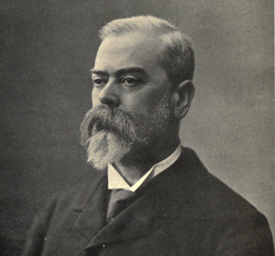 Studio Portrait of John Milne Bramwell (1852-1925). From Begbie, Harold, "Dr. Milne Bramwell and Hypnotism", pp.275-288 in Begbie, H., Master Workers, Methuen & Co. , (London), 1905. facing page 275